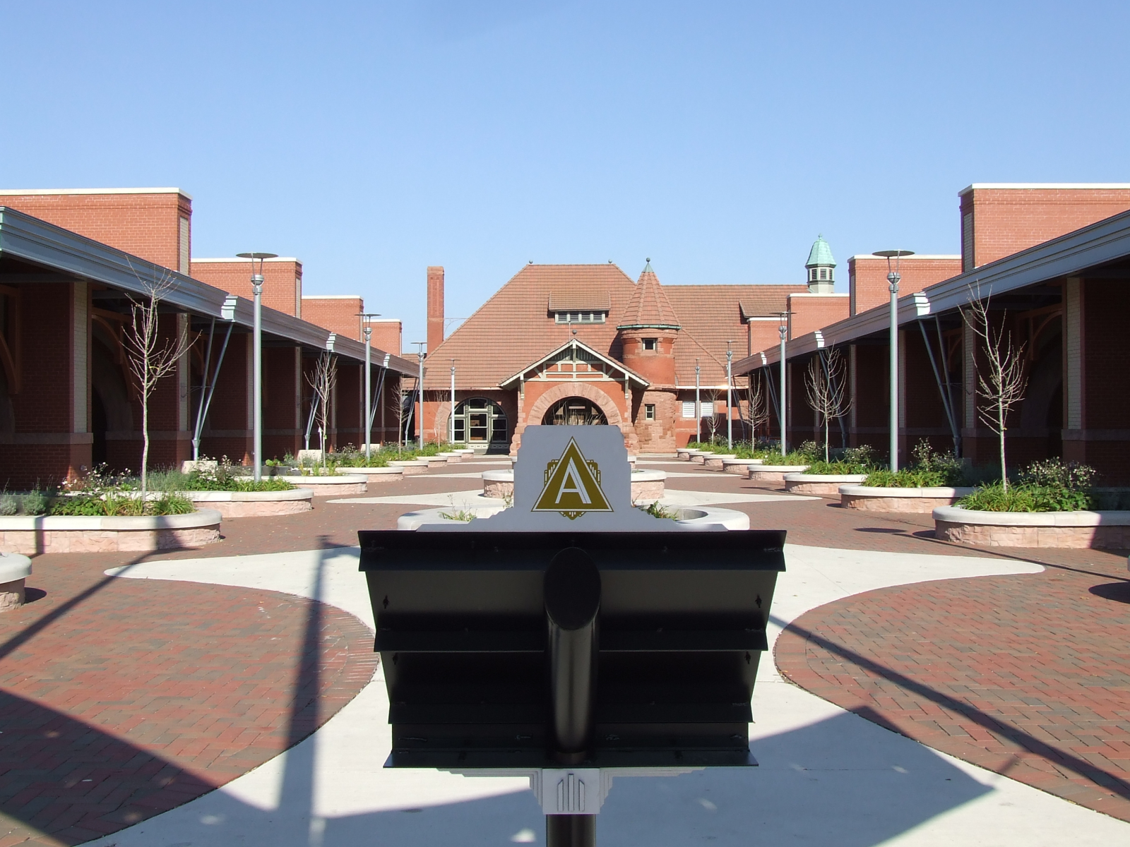 The Kalamazoo Transportation Center bus loading area, in the centre looking north.